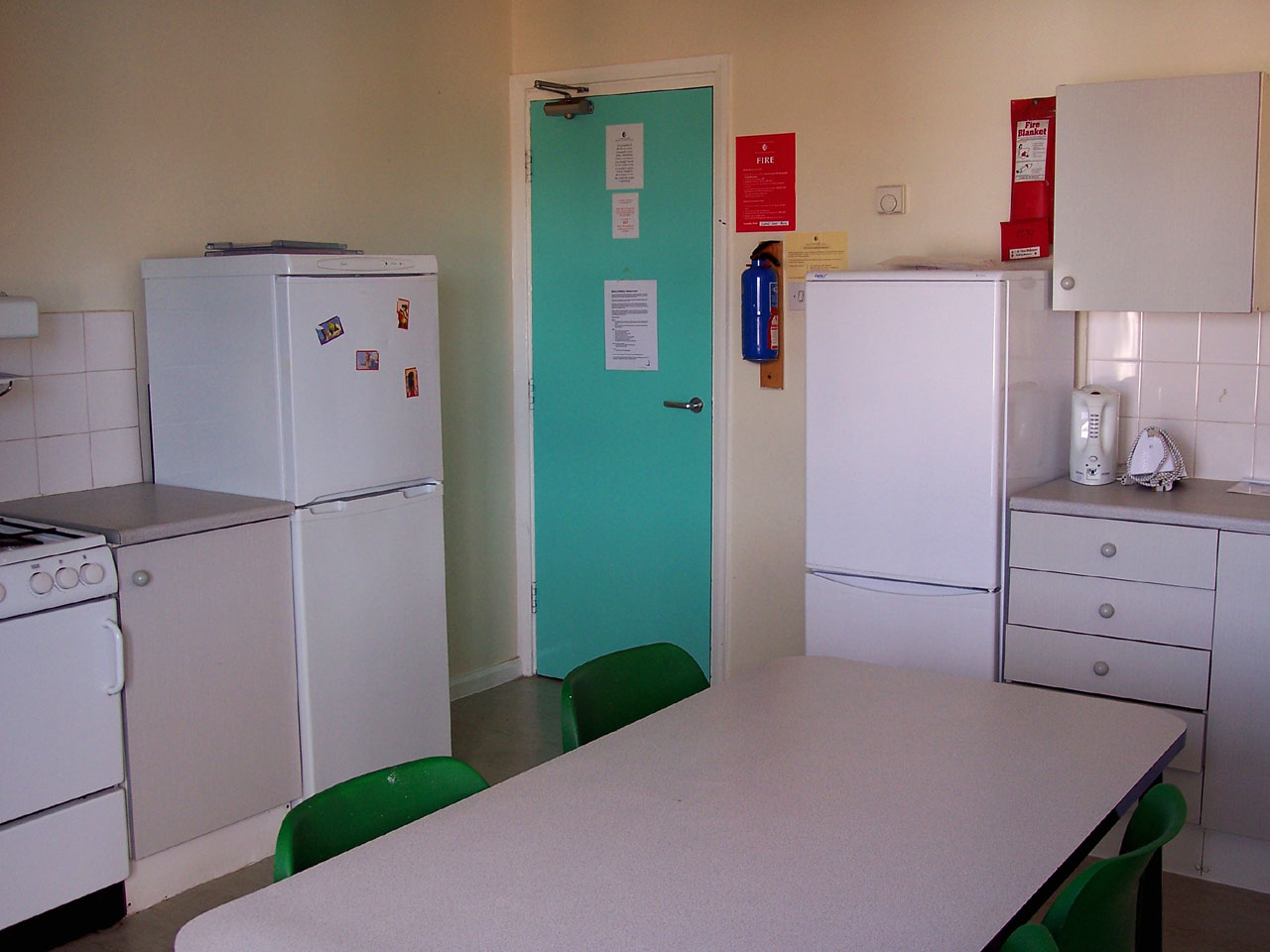 A kitchen in Montage Burton Residences student accommodation at the University of Leeds, Leeds, United Kingdom.